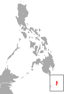 Talaud Flying Fox (Acerodon humilis) range